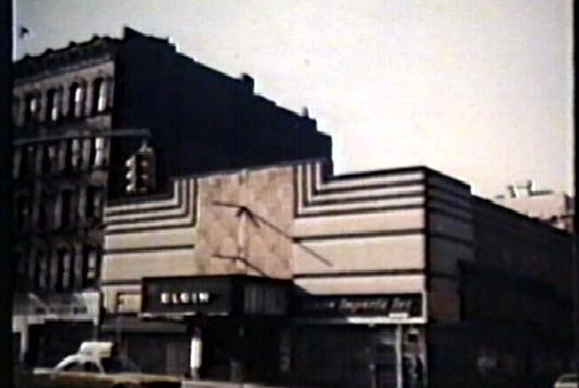 Elgin Theater, New York City, general view